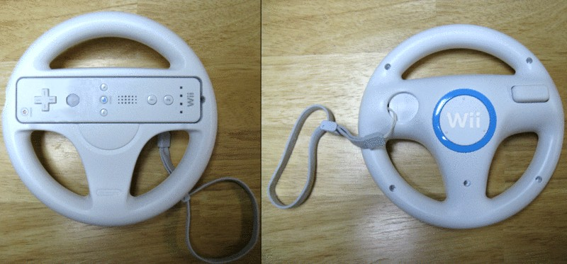 Front and back view of the Wii Wheel included with Mario Kart Wii.